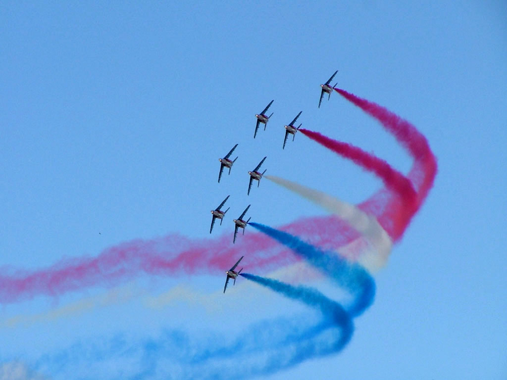 Patrouille de France at RIAT 2004.